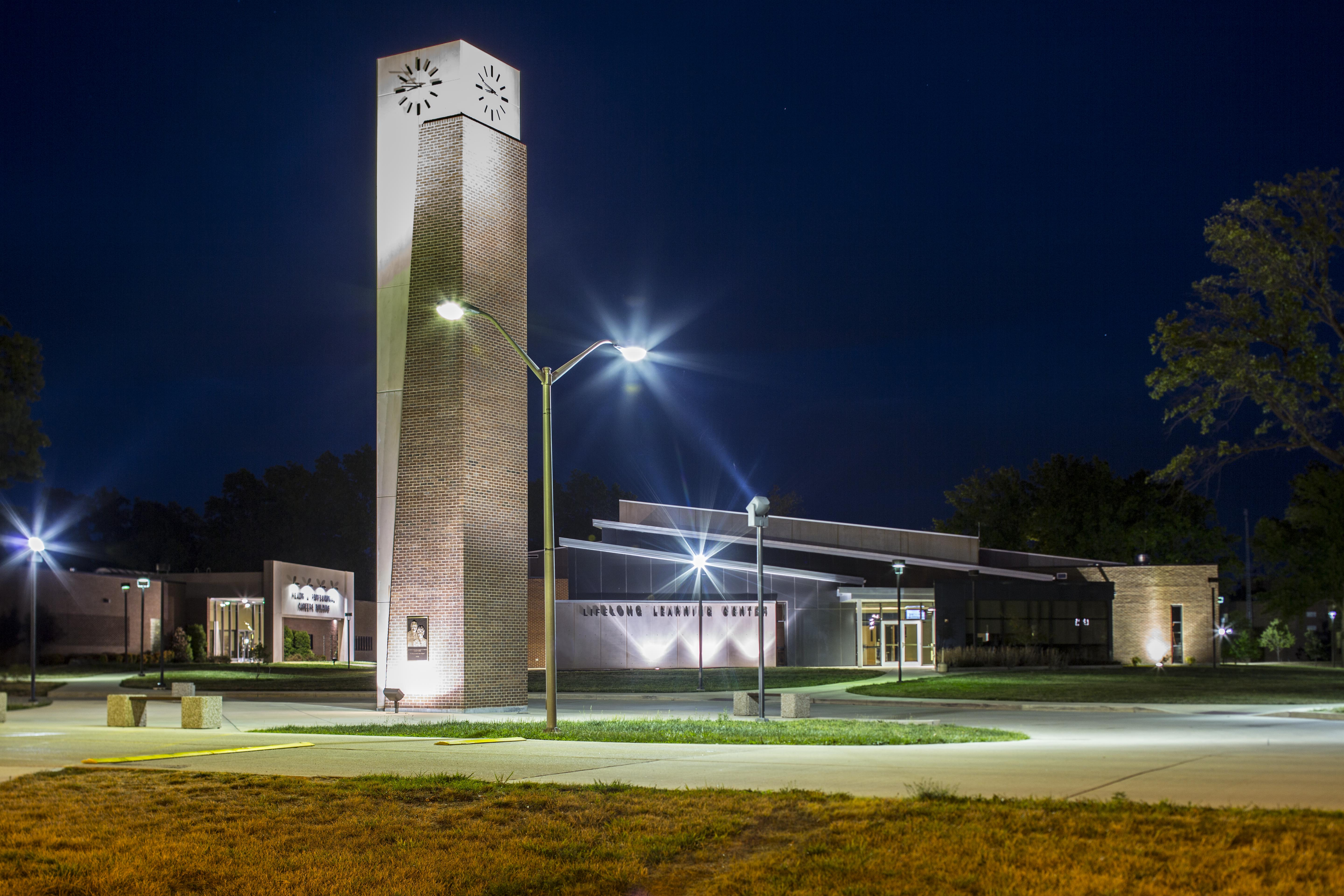 Kaskaskia College Lifelong Learning Center Summer 2012, Photo by ThePhotoRun's Jason Runyon